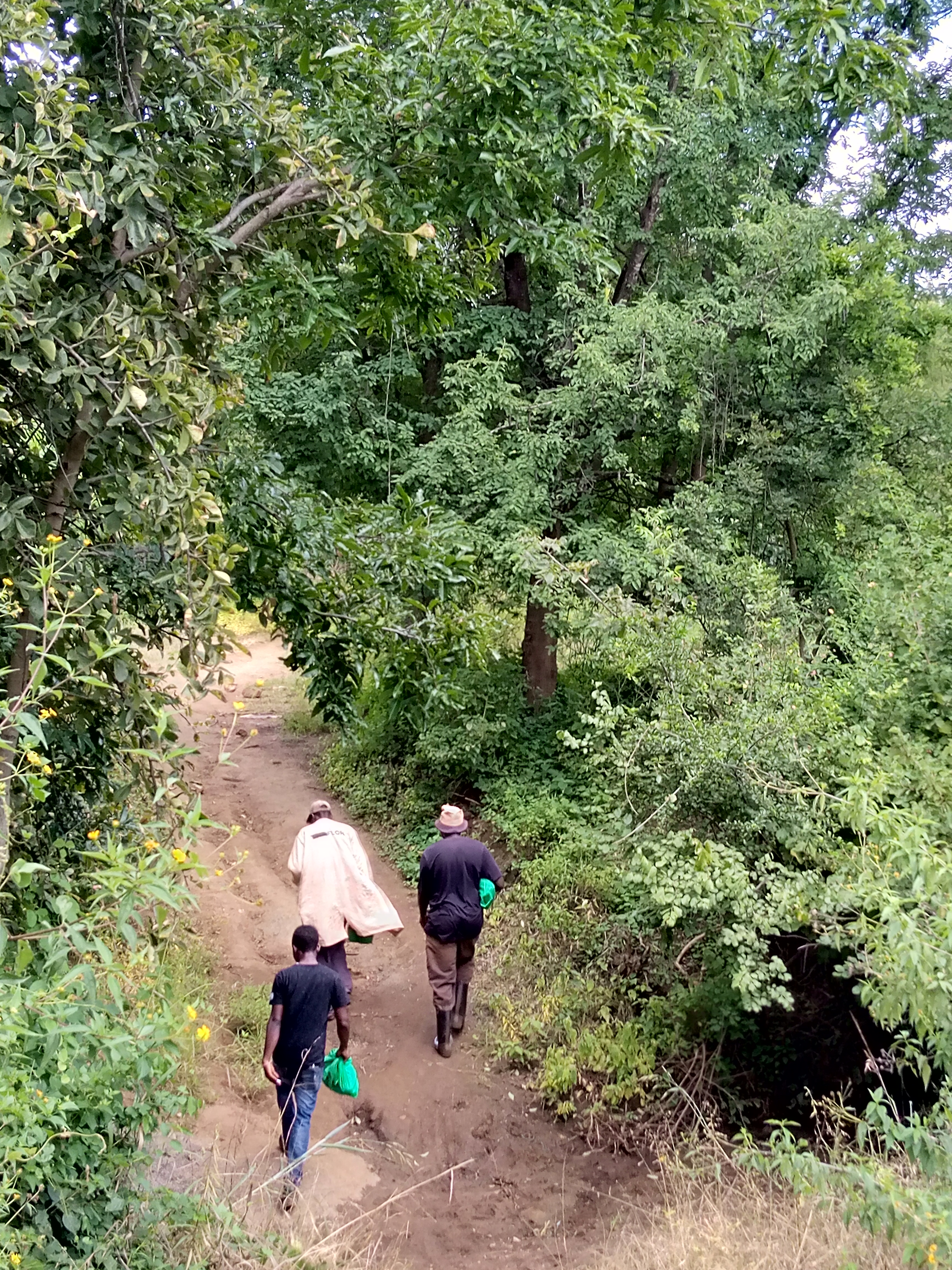 This picture shows three men walking along a road in Tunyai. This is an image with the theme "Africa on the Move or Transport" from: Kenya